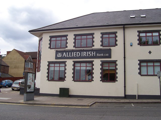 Allied Irish Bank Allied Irish Bank Wembley Hill Road